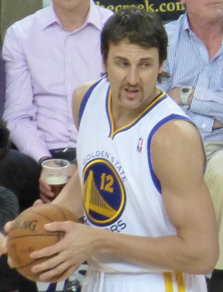 Golden State Warriors players Andrew Bogut and David Lee at the Oracle Arena